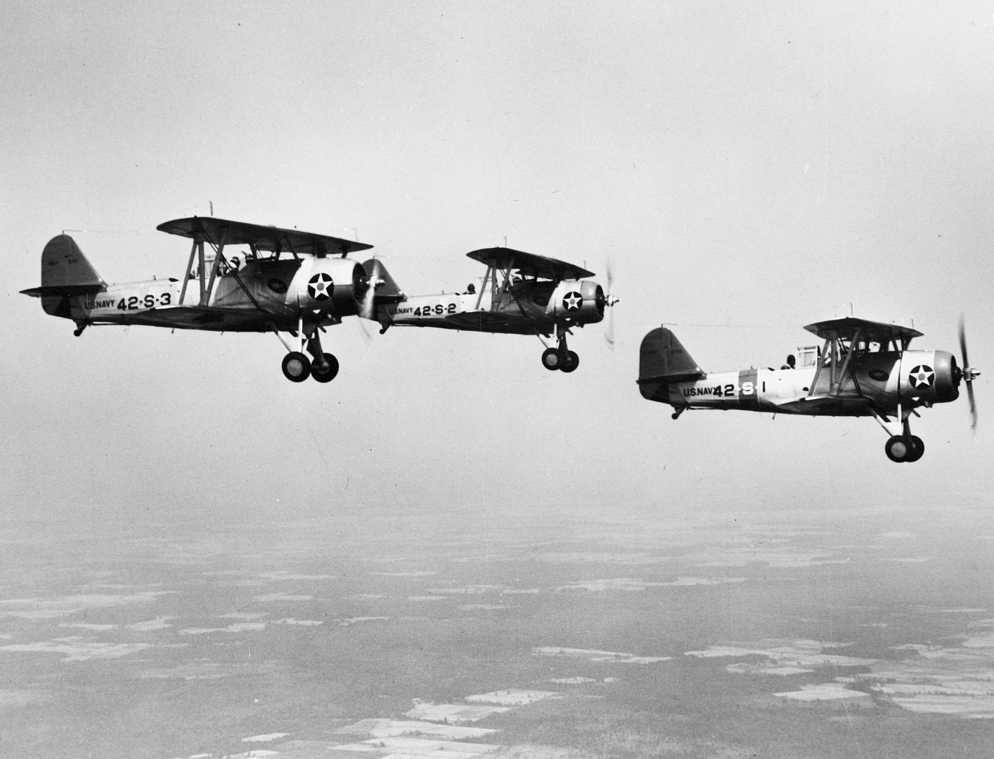 U.S. Navy Vought SBU-1 dive bombers of scouting squadron VS-42 flying the Neutrality Patrol near Norfolk, Virginia (USA), in 1940. The pilot of 42-S-3 was ENS E.J. Murphy.